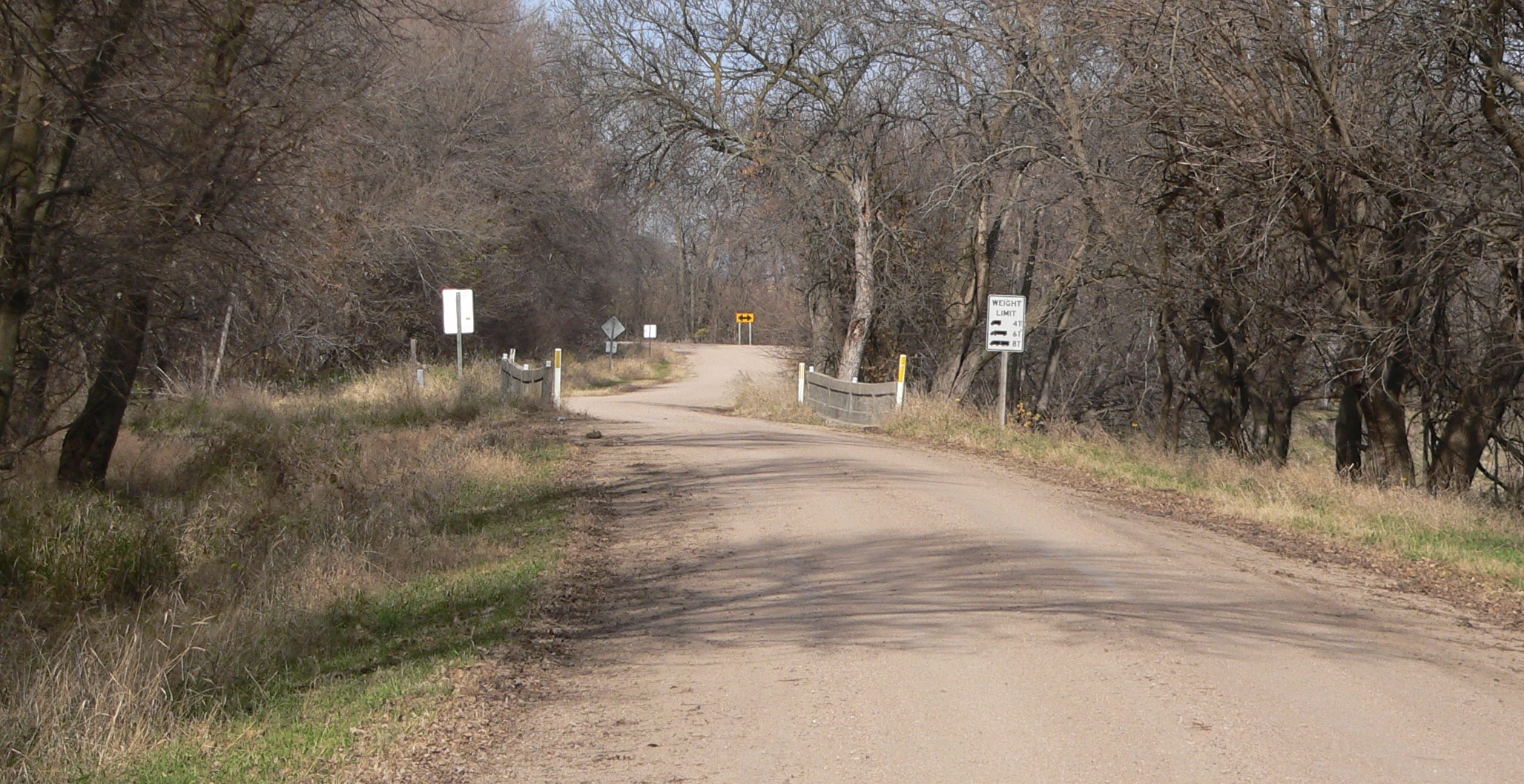 Historic bridge in Fillmore County, Nebraska, seen from south. The bridge is located where County Road 6 crosses the West Fork of the Big Blue River. The concrete spandrel arch bridge was designed by county engineer William A. Biba and built by contractor Frank N. Craven in 1918. It is listed in the National Register of Historic Places.